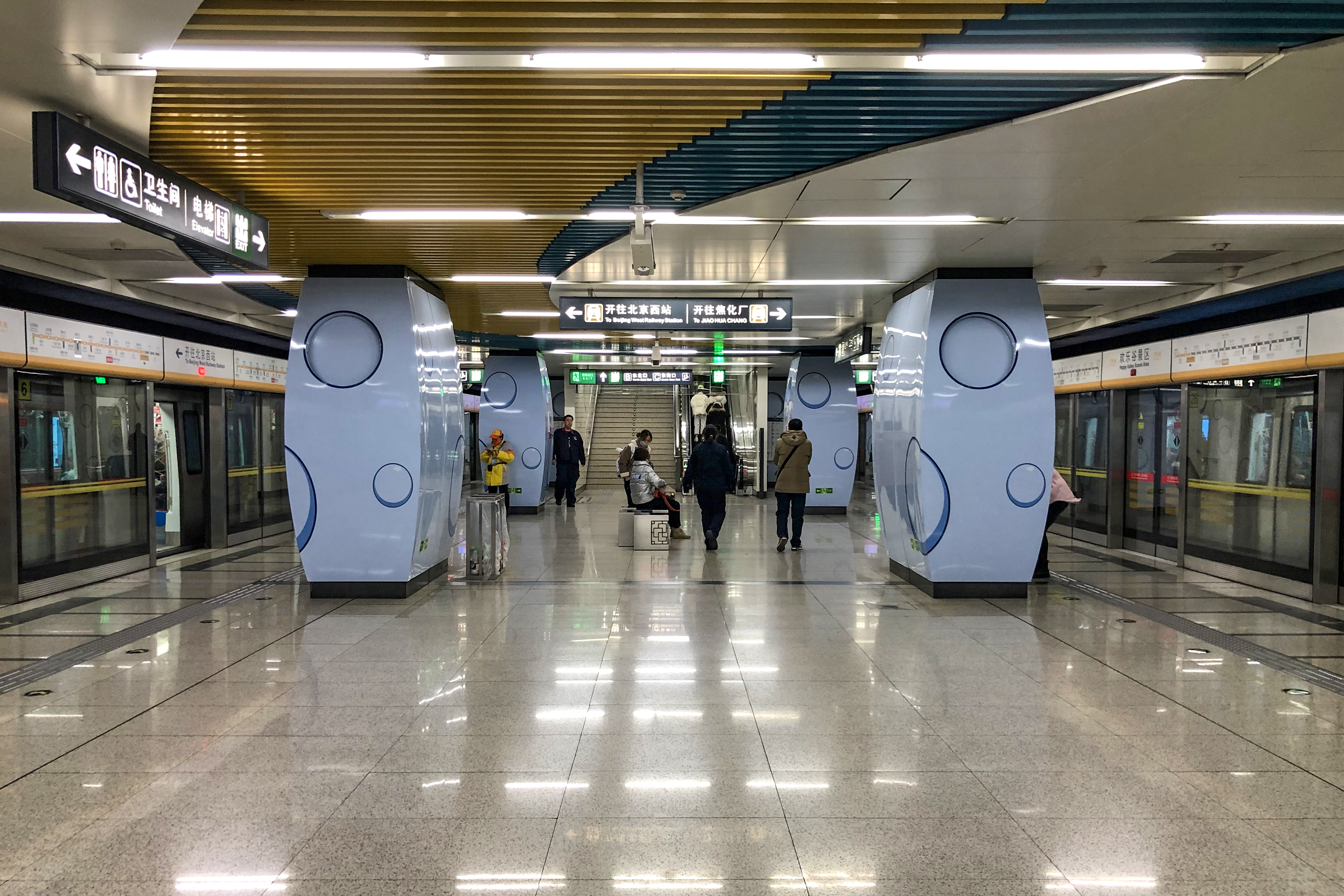 The English name from 2014 to 2019 is "Happy Valley Scenic Area", but will be changed to "Beijing Happy Valley". In fact, this change is only reflected in the route diagram inside trains.